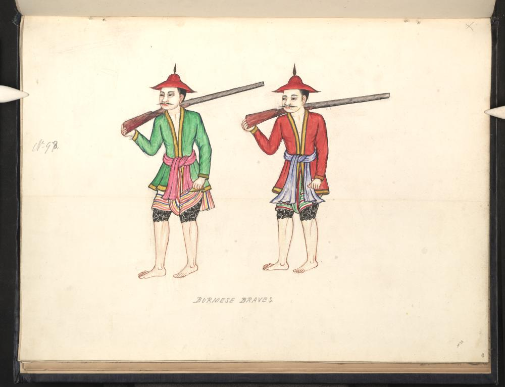 Watercolour painting by an unknown Burmese artist depicting 19th century Burmese life. Burmese Braves. Shelfmark: Ms. Burm. a. 5